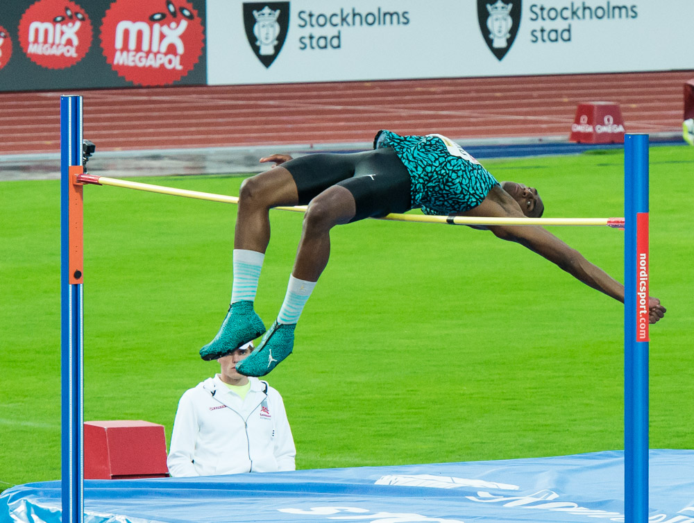 Erik Kynard at the Stockholm Olympic Stadium during the Bauhaus Gala (Stockholm Bauhaus Athletics), (2015 IAAF Diamond League) July 30, 2015.